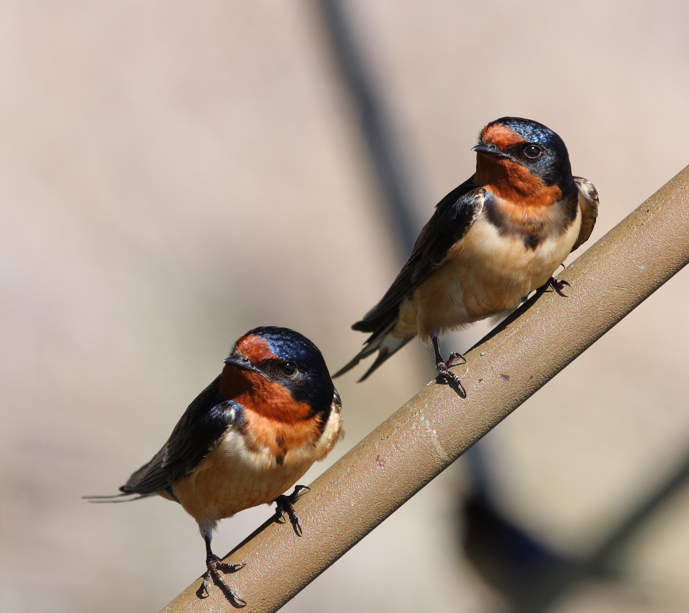 Barn Swallows, Point Pelee National Park, Ontario, Canada